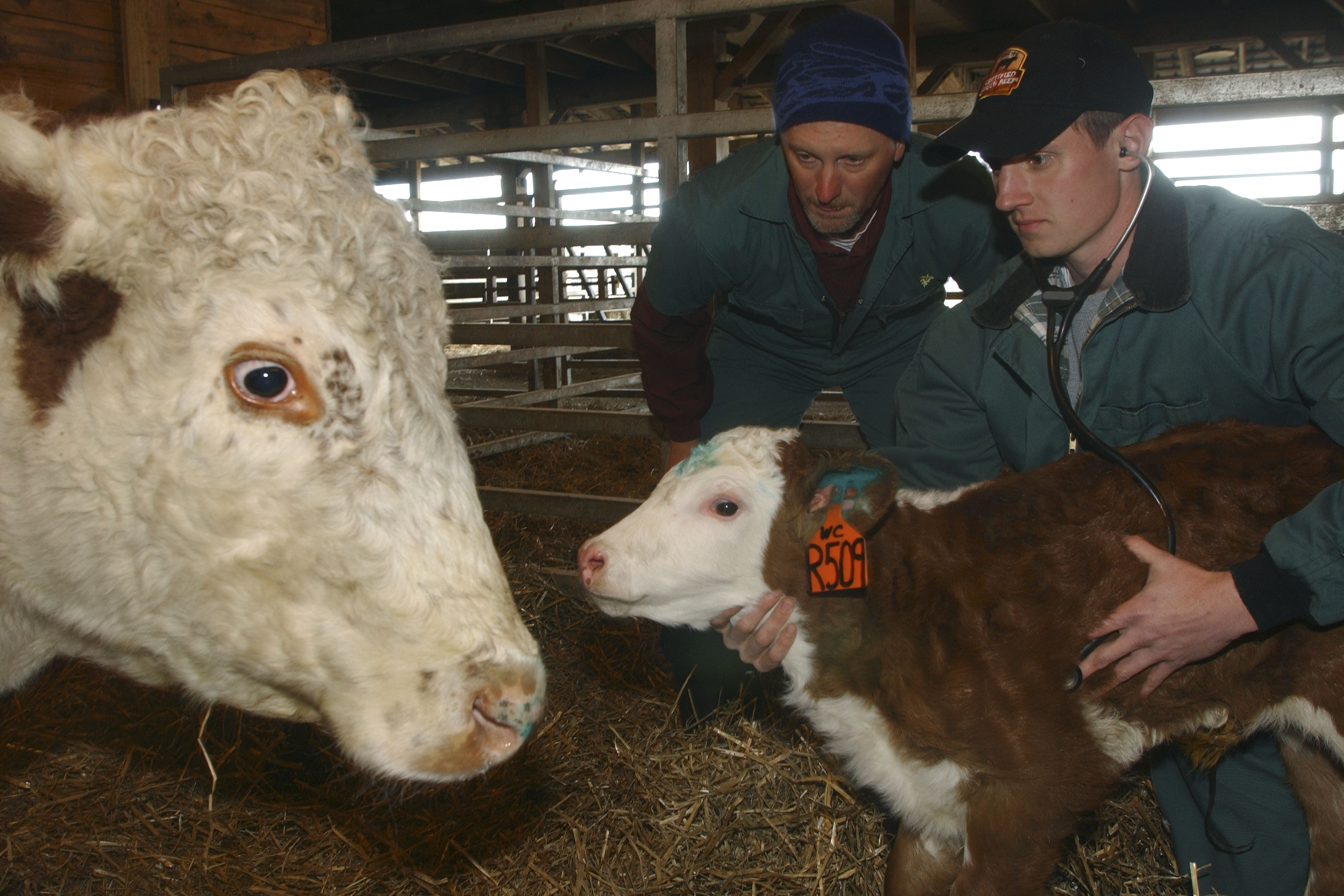 A veterinary student at the Virginia-Maryland Regional College of Veterinary Medicine receives clinical training in bovine health under the watchful eye of a faculty member.